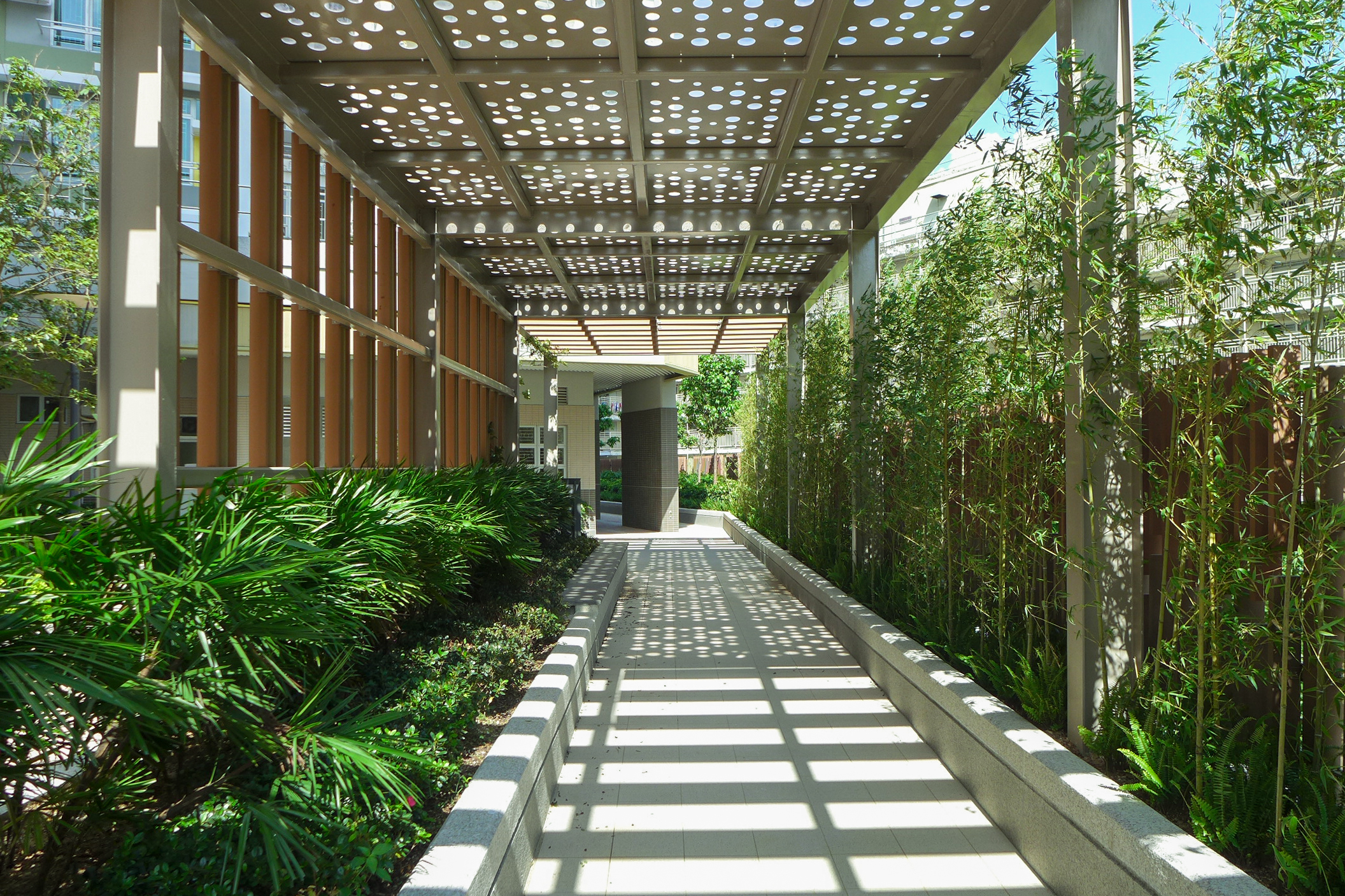 Ching Chun Court Landscape Garden Pavilion